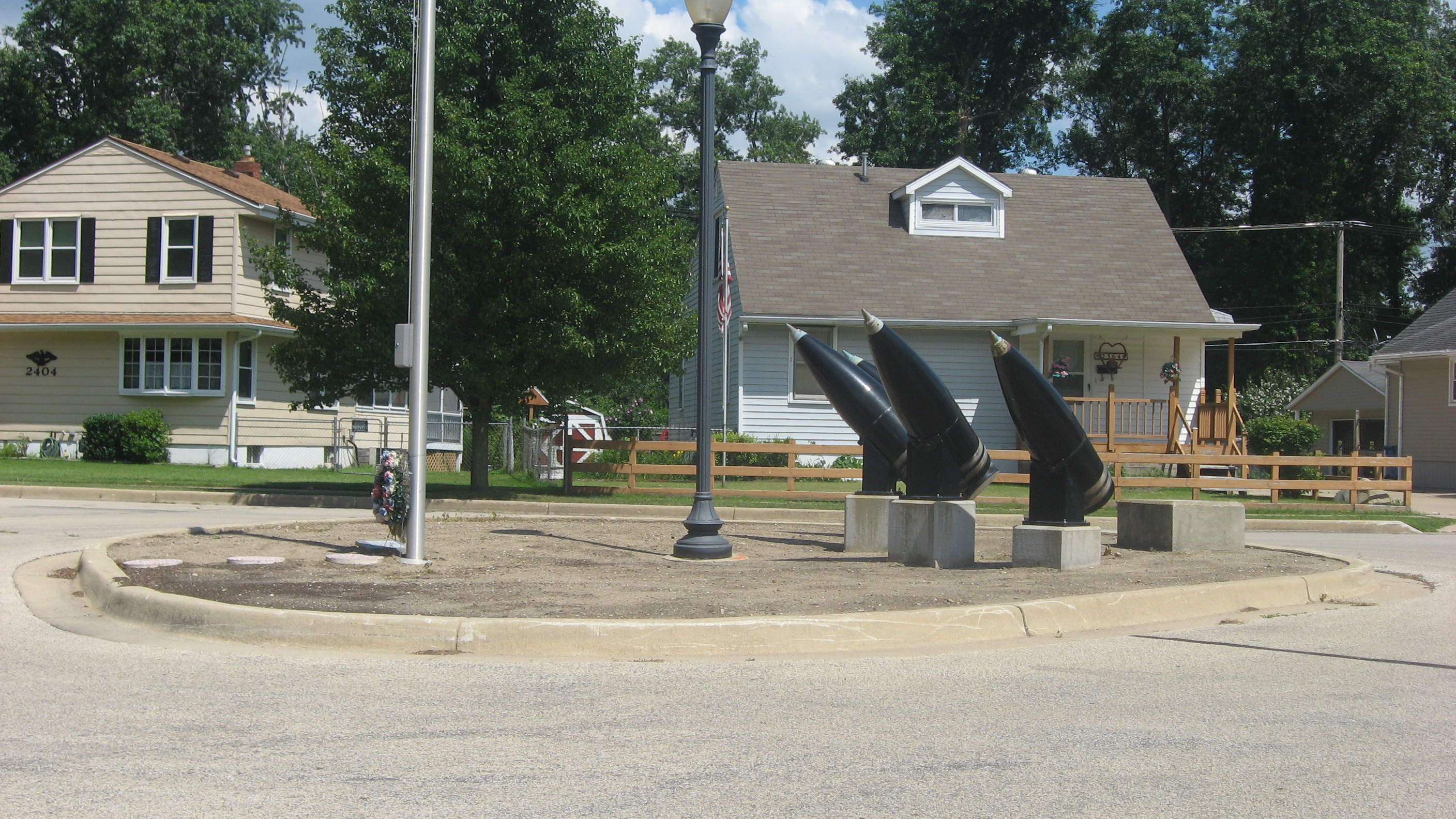 Junction of Normandy Drive and Guam Avenue in Mishawaka, Indiana, United States. This intersection is part of the Normain Heights Historic District, a historic district that is listed on the National Register of Historic Places.